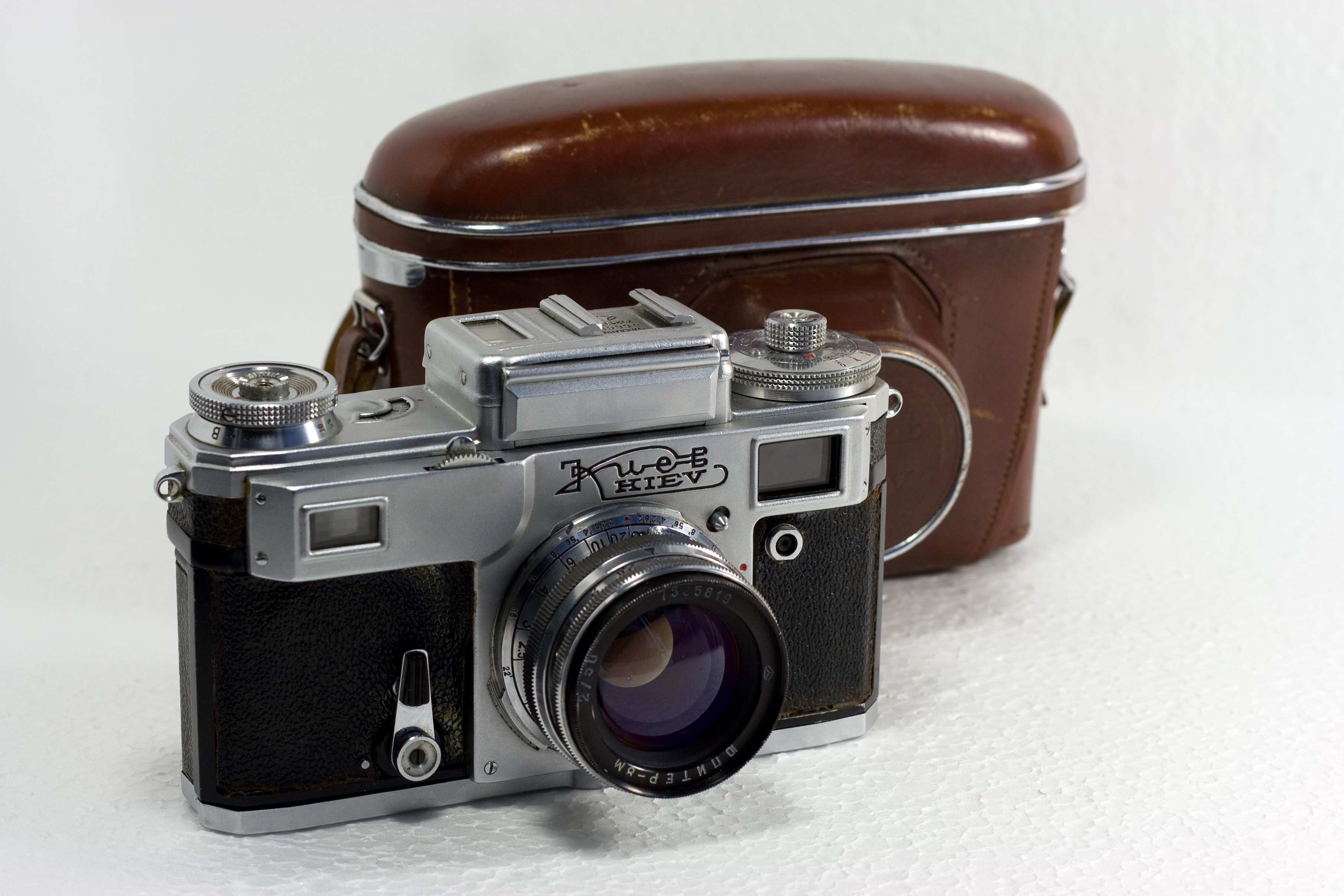 Kiev 4 camera with Jupiter-8M lens and original camera case